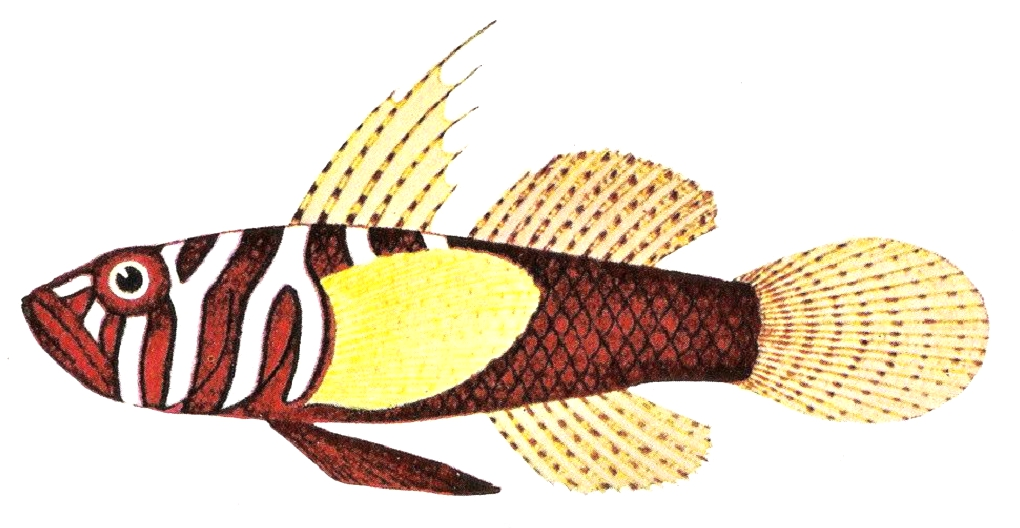 Priolepis semidoliata (Valenciénnes 1837)